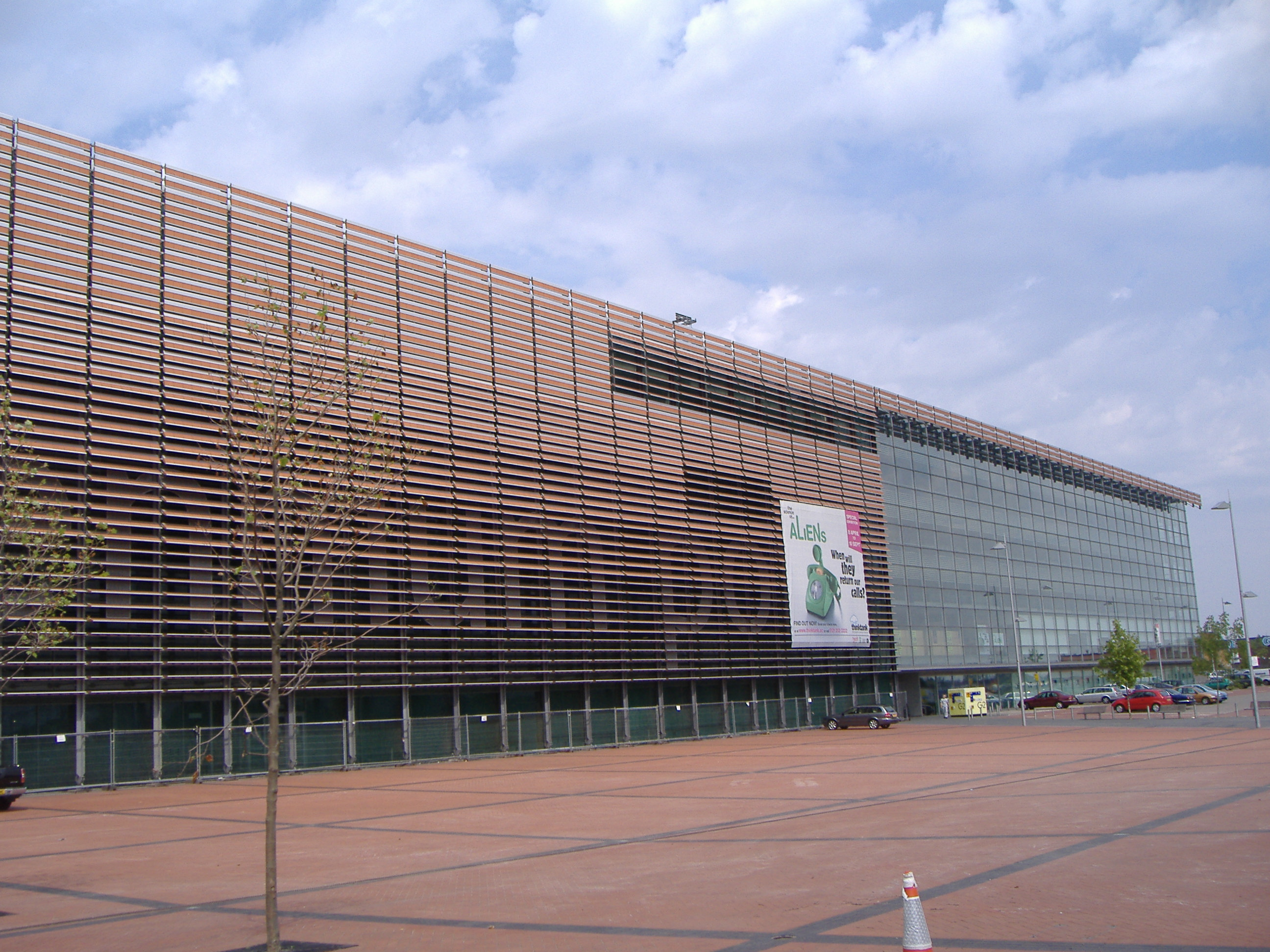 This is the front of the Millennium Point complex in Birmingham, UK.